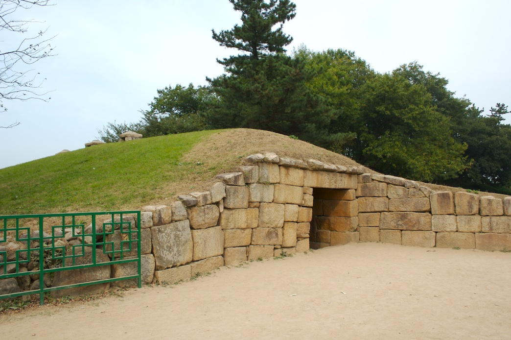 The entrance to the ice store. Korea Gyeongju 20061017 IMG_8832.jpg